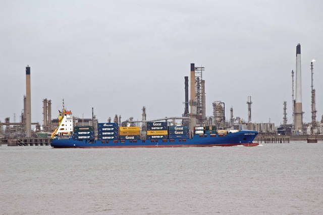 MV Geeststroom heading downstream on the River Thames. Named MV Neuburg since 2008. Information about Geeststroom may be found at IMO 9287792.A ship can change name and flag state through time, but the IMO number remains the same through the hull's entire lifetime. As a result, it can be useful to identify a ship by using the IMO number.